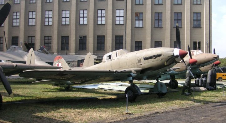 Ilyushin Il-10 bearing markings of the Polish Air Force, as featured in the Museum of the Polish Army